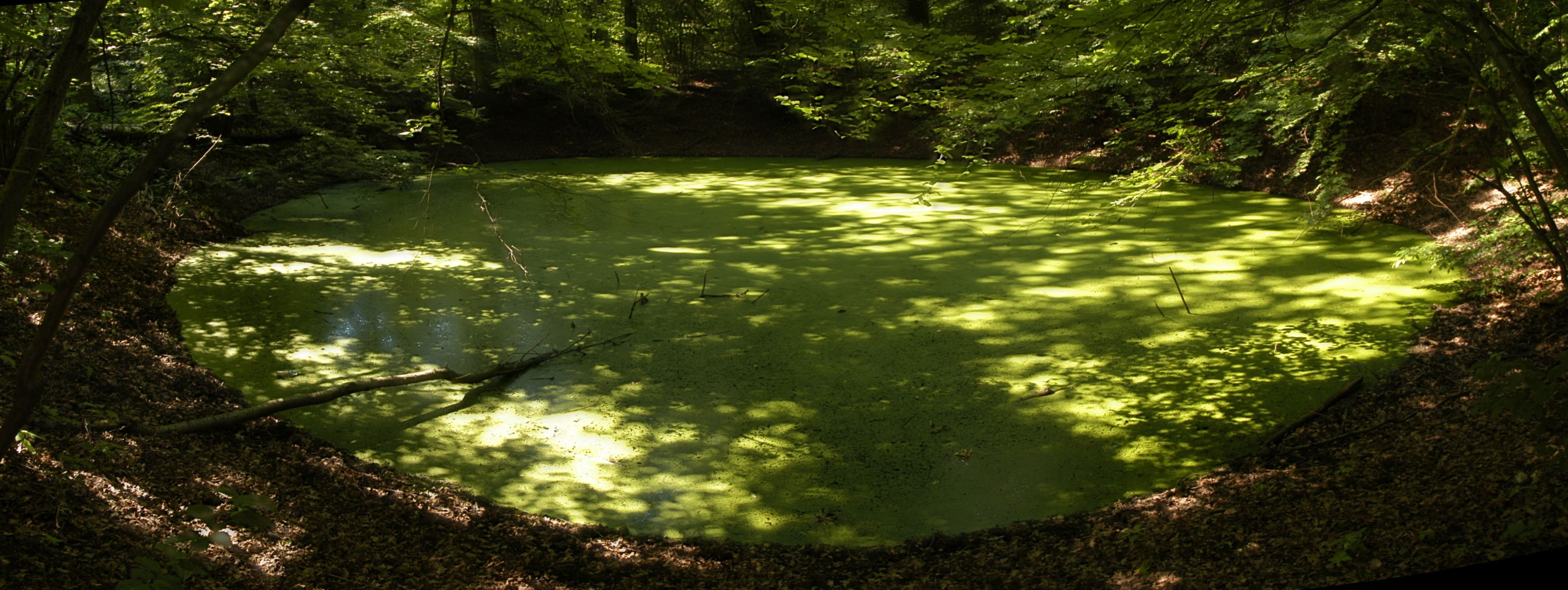 Impact crater in Morasko filled with water. It is the third crater in diameter in group.